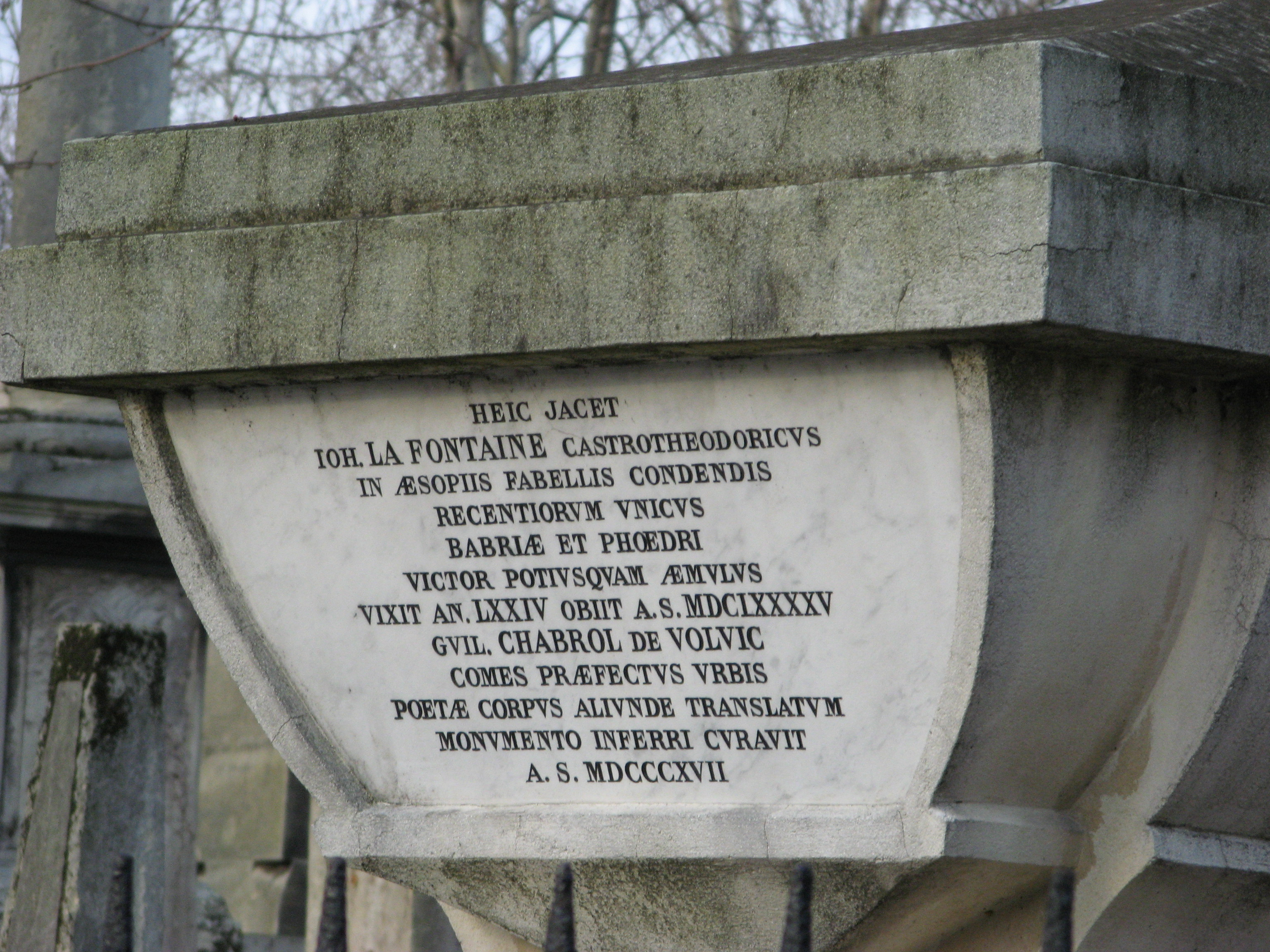 Jean de La Fontaine's tombstone in Père Lachaise Cemetery, in Paris.